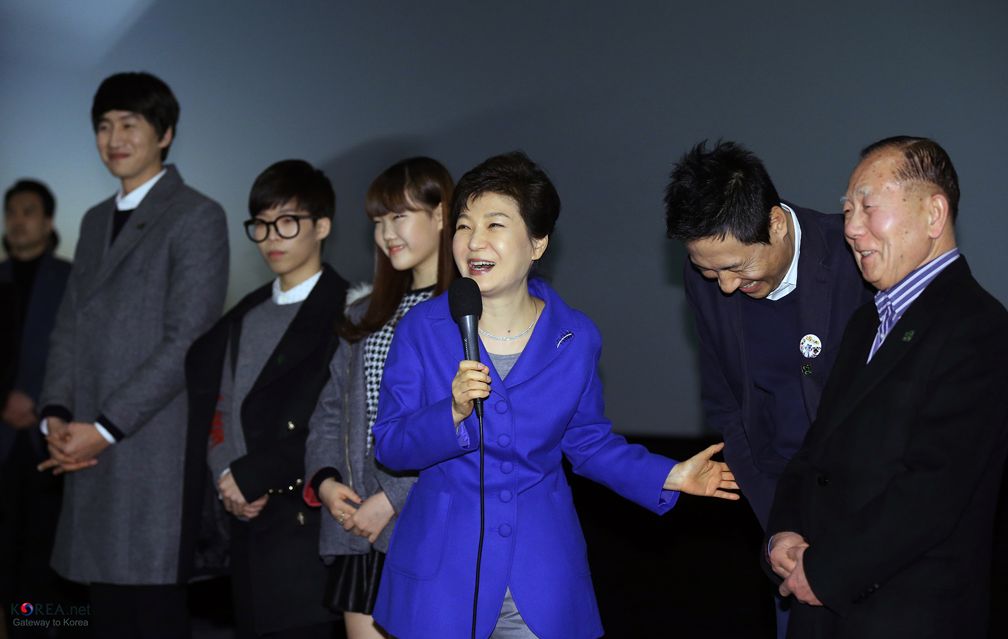 Culture Day President Park Geun-hye introduces Ha Hoe-jin, CEO of Redrover, the company that co-produced “The Nut Job,” at Daehan Cinema in central Seoul on January 29, before the screening of the film. January 29, 2014. Daehan Cinema, Chungmu-ro, Seoul Related Articles -English- President Park attends movie on first Culture Day -Espanol- La presidenta Park Geun-hye asiste al cine en el primer Día de la Cultura -Deutsch- Präsidentin Park schaut sich am ersten Kulturtag einen Film an -Russian- Президент Пак присутствует на просмотре фильма в первый День культуры Ministry of Culture, Sports and Tourism Korean Culture and Information Service JEON HAN 문화가 있는 날 박근혜 대통령이 29일 첫 ‘문화가 있는 날’을 맞아 대한극장에서 어린이들과 함께 애니메이션 ‘넛잡(The Nut Job)’ 관람에 앞서 제작사 레드로버의 하회진 대표를 소하고 있다. 2014-01-29 대한극장, 충무로, 서울 문화체육관광부 해외문화홍보원 코리아넷 전한